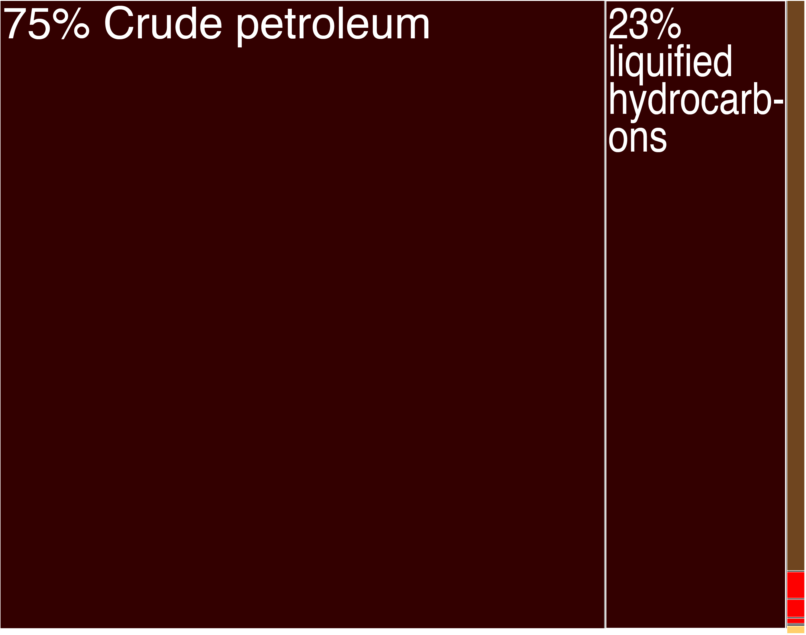 Exports of Equatorial Guinea Treemap. Year 2009